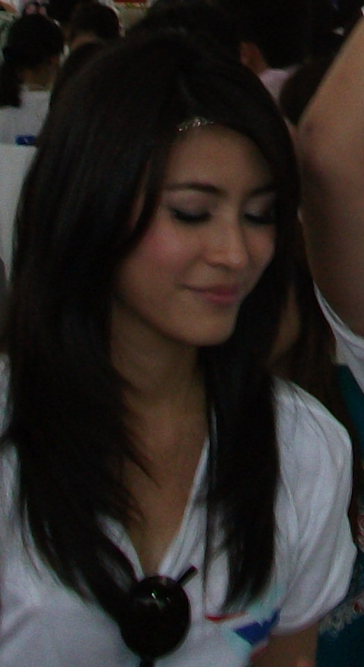 Waratya Nilkooha at Parc Paragon, Siam Paragon, Bangkok.